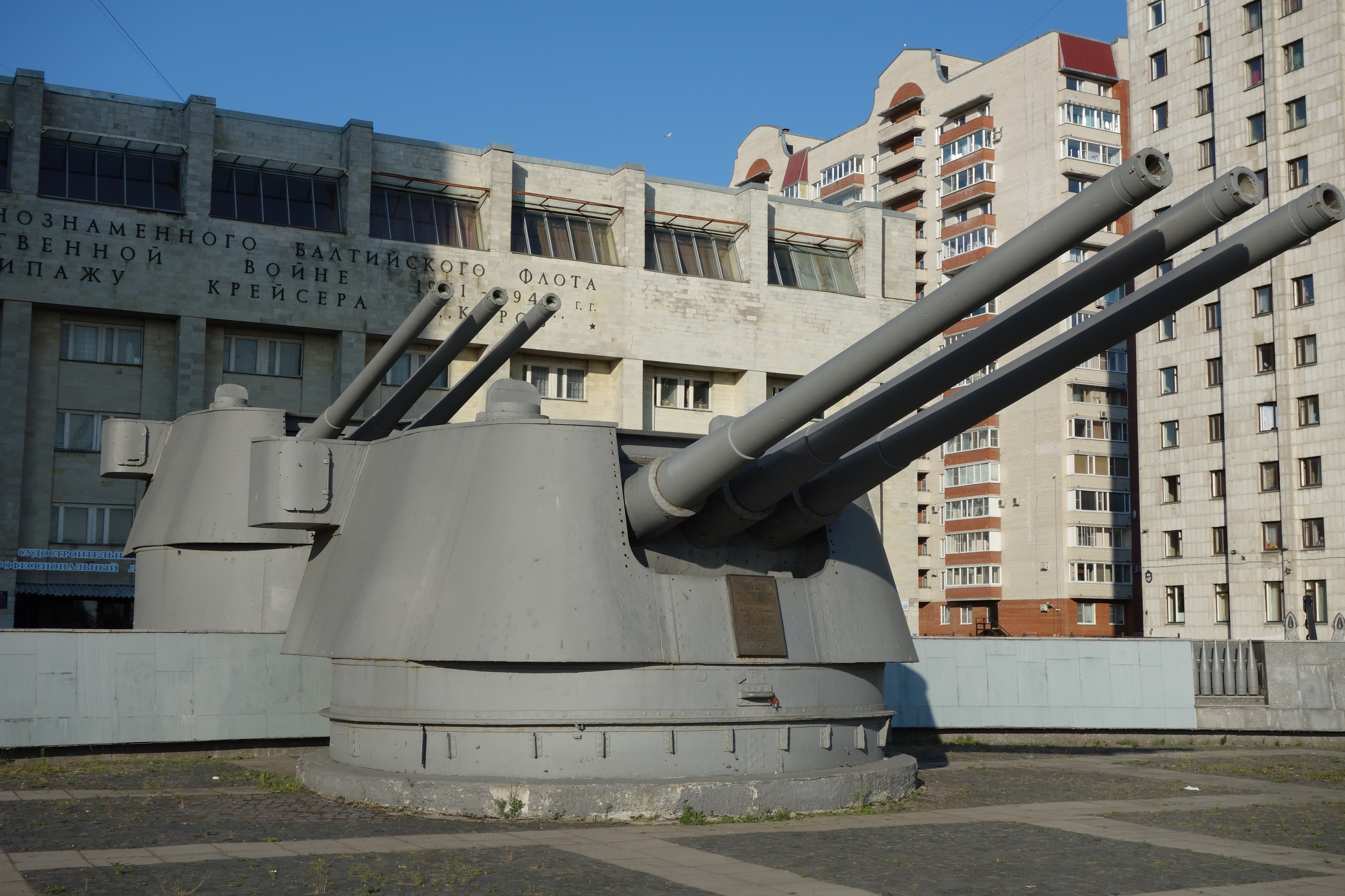 Triple 180-mm turrets of Russian cruiser Kirov (decommissioned 1974) mounted in Saint-Petersburg, Korablestroitelei street